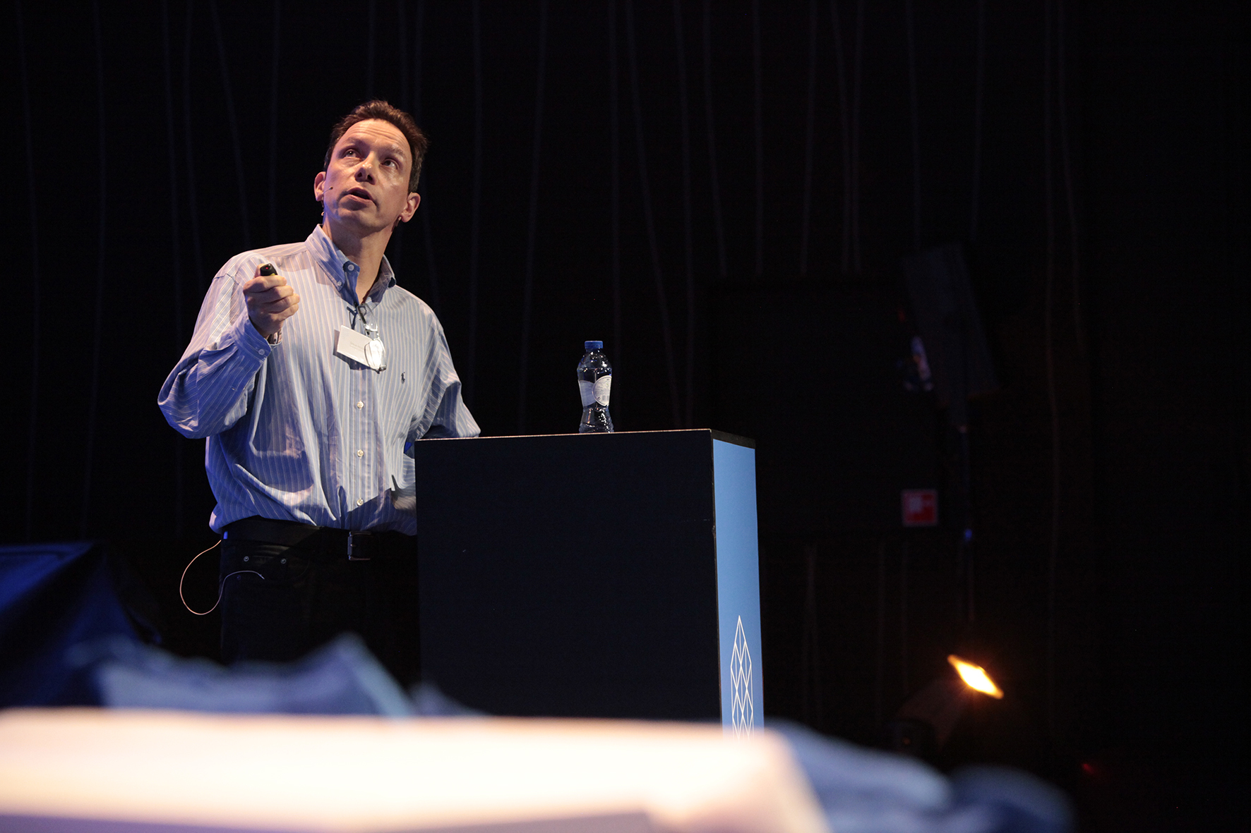 Steve Horvath, UCLA professor, presenting a talk June 2015